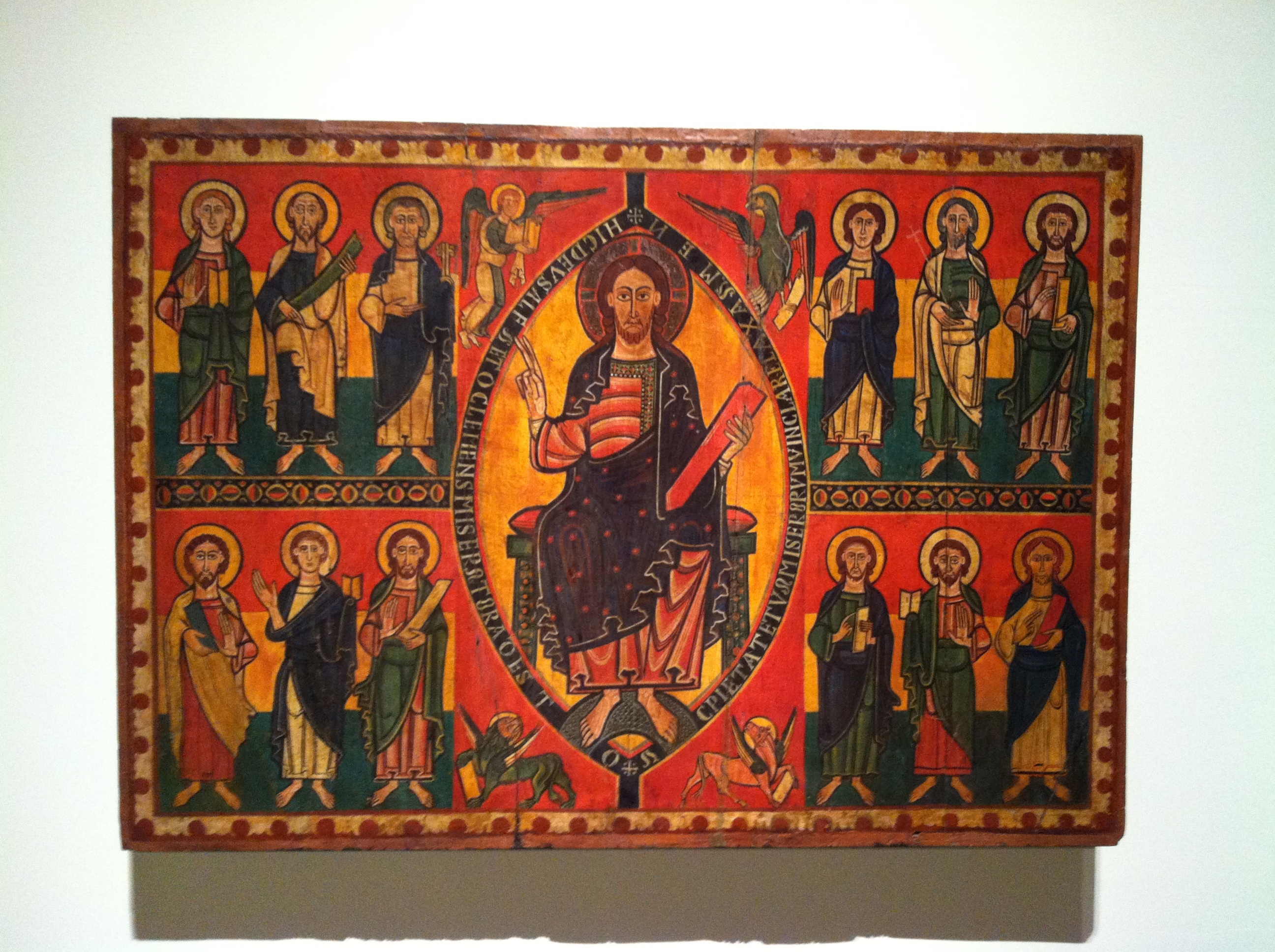 Reopening of the Romanesque collection of MNAC, Museu Nacional d'Art de Catalunya, in Barcelona